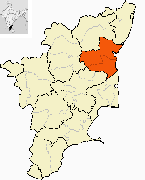 Location of former South Arcot district at the time of the formation of Madras State (present-day Tamil Nadu) in 1956. North Arcot district was bifurcated in 1993 in Viluppuram and Cuddalore districts. Present-day district borders (as of 2009) marked in grey.